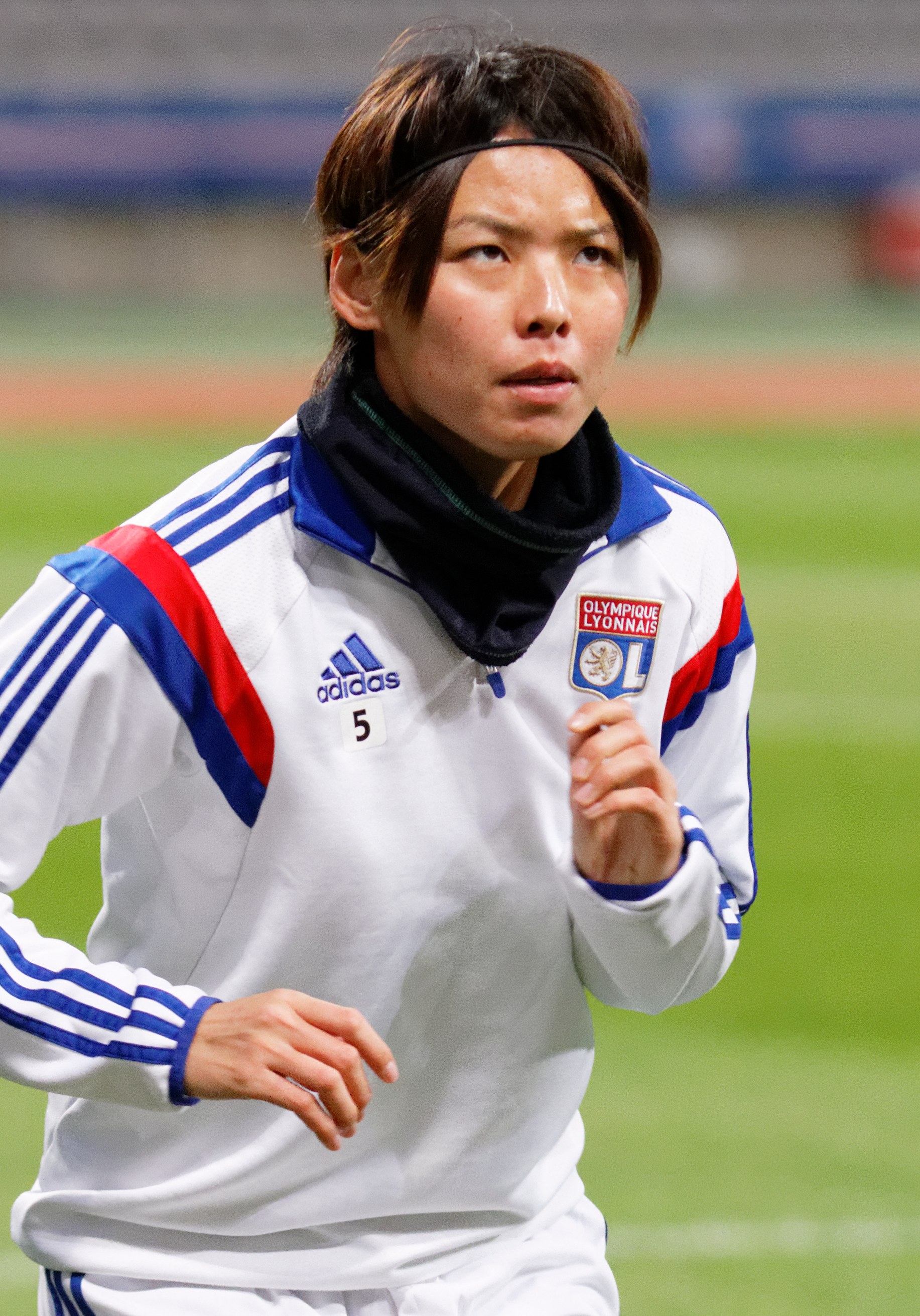 UEFA Women's Champions League, PSG - Lyon, 8 November 2014.